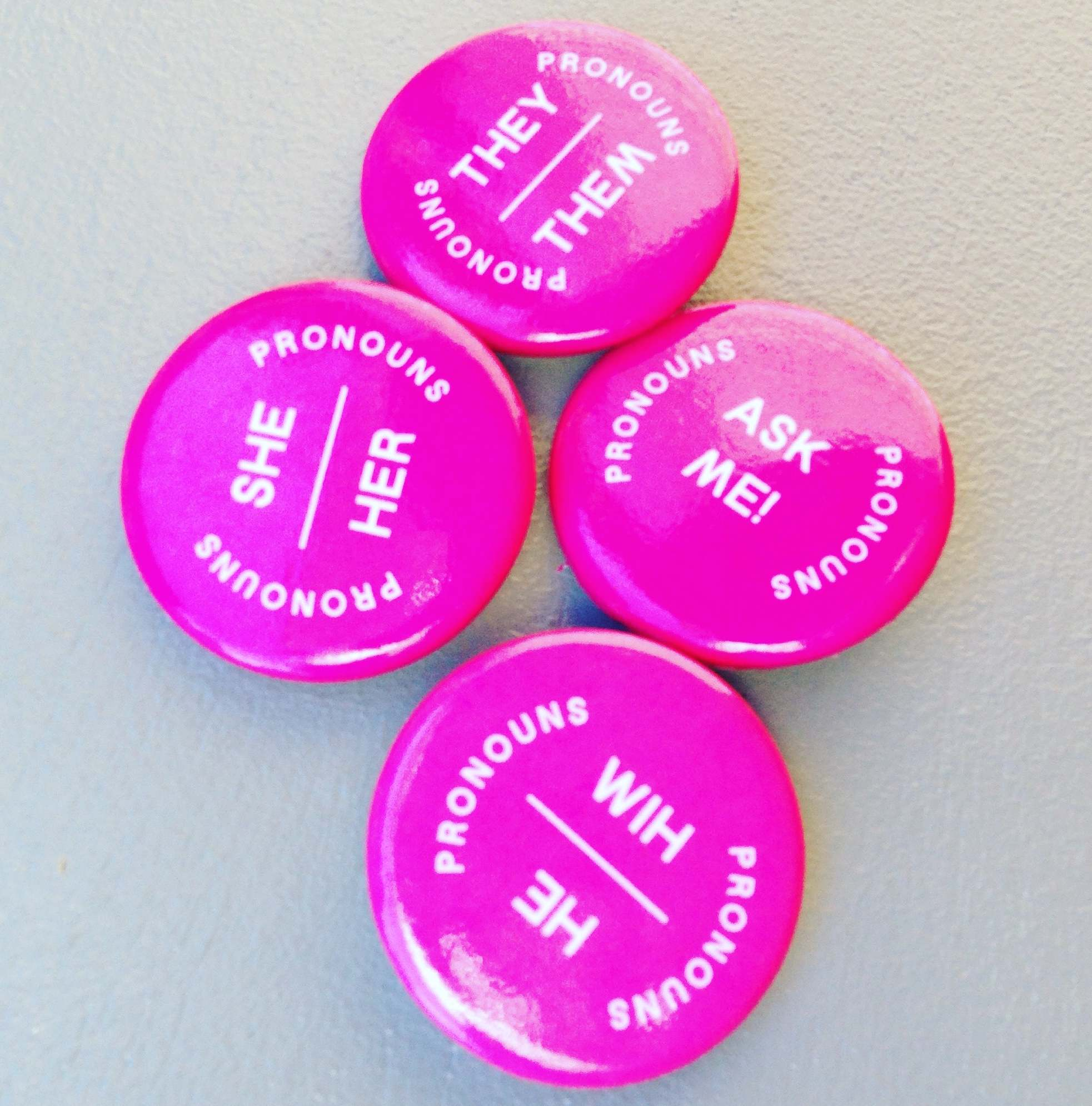 Cropped version. The organizers of the XOXO art and technology festival in Portland, Oregon made these pins available so attendees could make their preferred pronoun clear. 2016. Original photo by sarahmirk